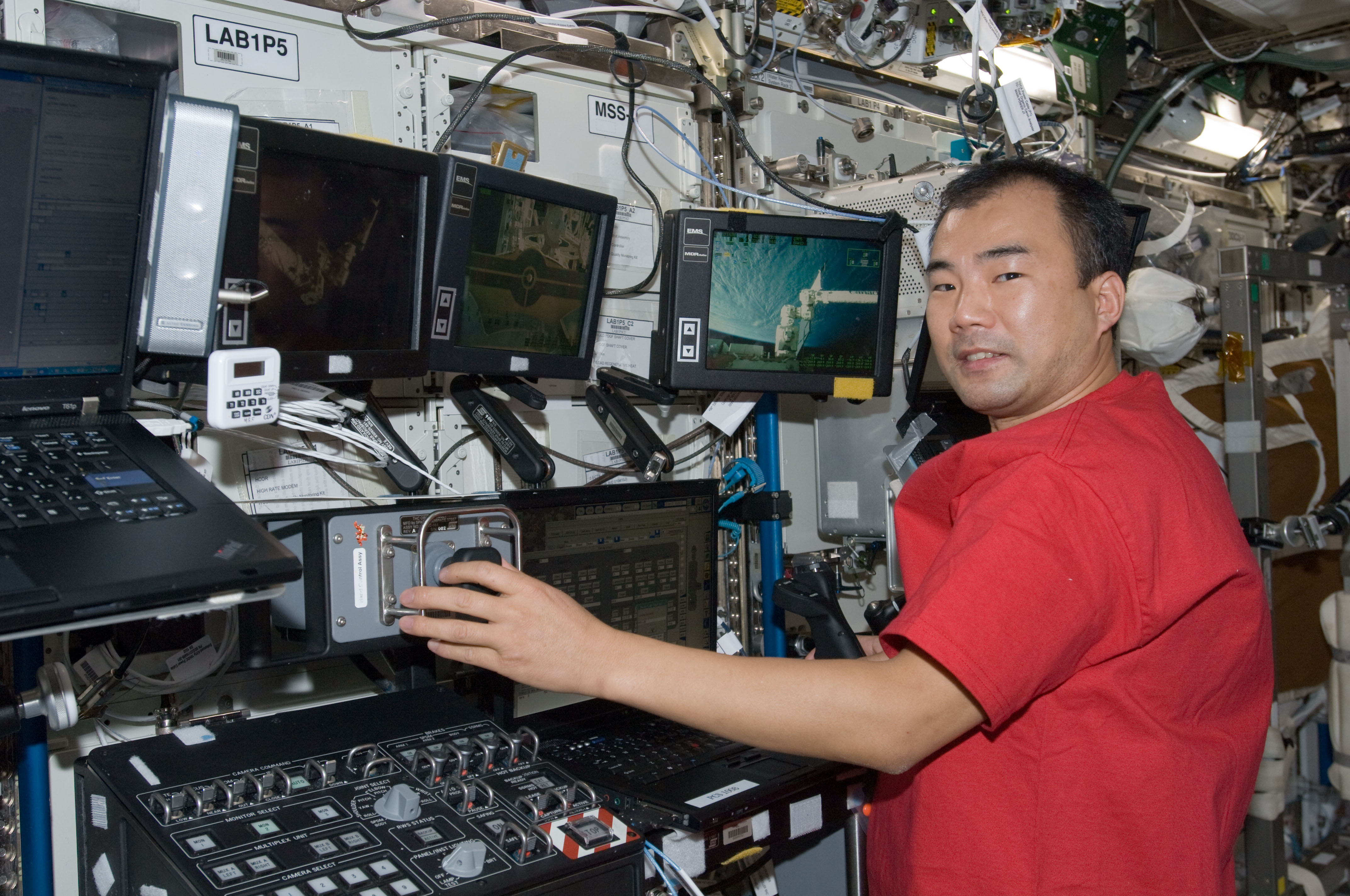 Japan Aerospace Exploration Agency (JAXA) astronaut Soichi Noguchi, Expedition 22 flight engineer, works controls at the Canadarm2 workstation in the Destiny laboratory of the International Space Station during the relocation of the External Stowage Platform 3 (ESP-3) from the P3 truss upper site to the S3 truss lower site.